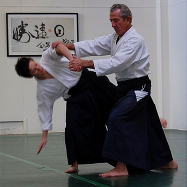 Scroll presented to Nadeau by Ueshiba which translates as ""Do the aikido that cannot be seen with the human eye"